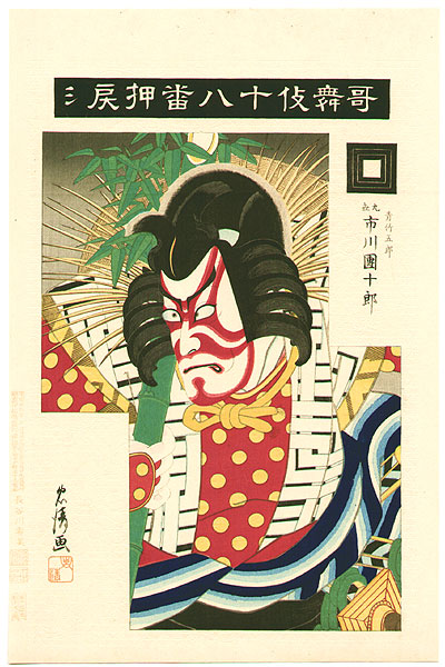 Ichikawa Danjūrō IX as Aotake Gorō in Eighteen Notable Kabuki Plays: "Oshimodoshi" Japanese woodblock print by Torii Tadakiyo (鳥居忠清 1847 - 1929), depicting an actor in kumadori Kabuki makeup. May 1896. Along the right side is the mimasu crest of the Ichikawa Danjūrō line of kabuki actors, followed by the name "Ichikawa Danjūrō" (市川團十郎). Based on the date, the actor depicted is likely Ichikawa Danjūrō IX, who was active at the time. The script in the bottom-left corner is the artist's signature. Finally, the text at the top of the image, reading from right to left, reads 「歌舞伎十八番押戻シ」(Kabuki Jūhachiban Oshimodoshi), referring to the Kabuki Jūhachiban, the collection of eighteen great plays selected by Ichikawa Danjūrō VII. 「押し戻す」(oshi-modosu), meaning "to push back", may refer to a revival at the time of these great plays.